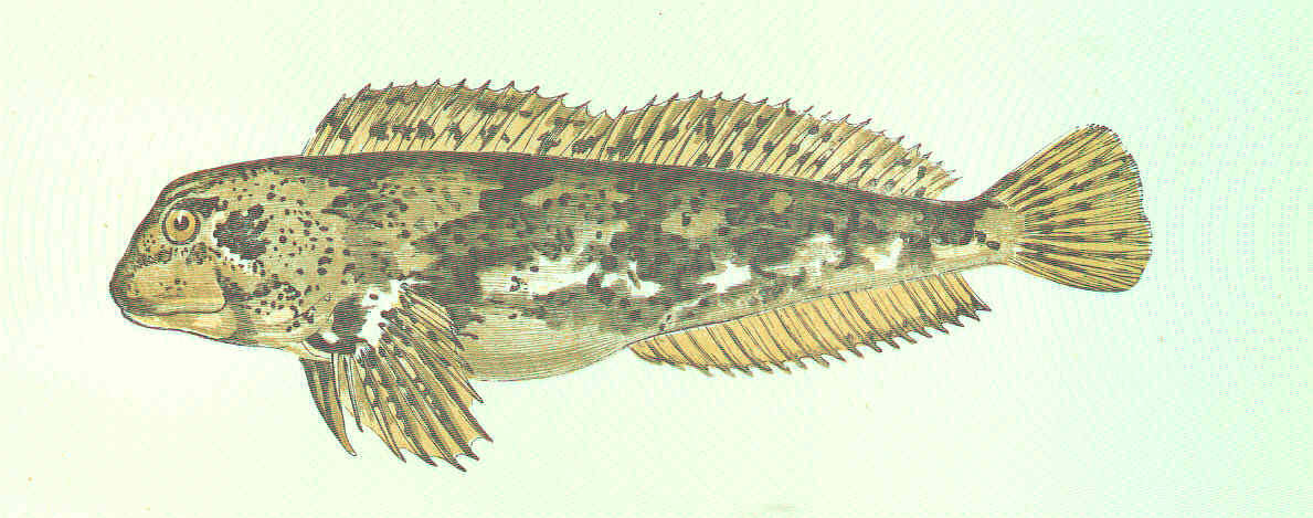 Shanny Mulligranoc Smooth Blenny Pholis Alauda non cristata Blennius pholis Pholis laevis Blennie pholis Subject: Daubed shanny Tag: Fish